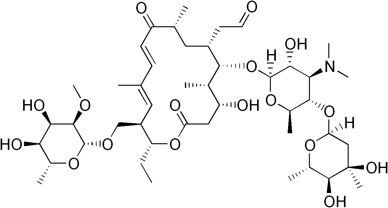 chemical structure of macrocin (tylocin C)